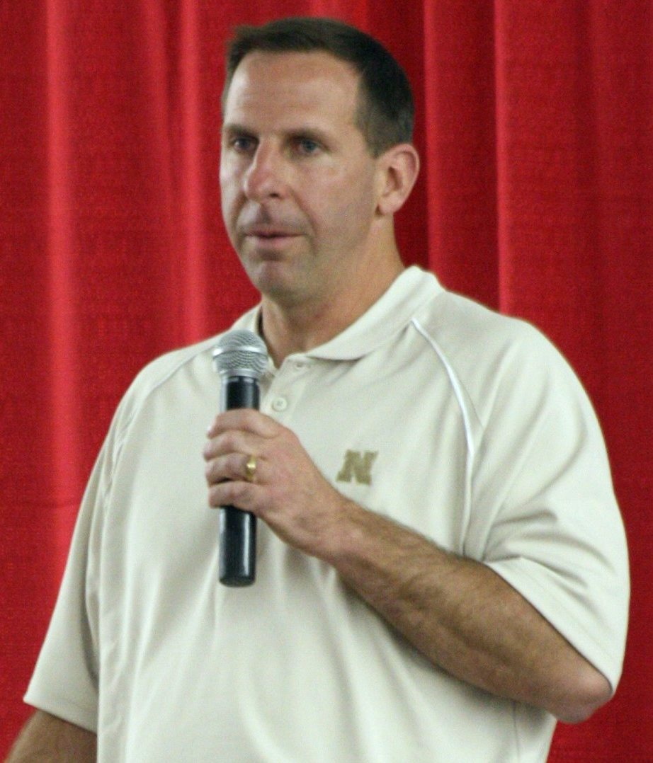 Bo delivers the address at the 2008 Columbus Area Chamber of Commerce Dinner @ Ag Park Columbus, NE Tuesday 04-29-2008.